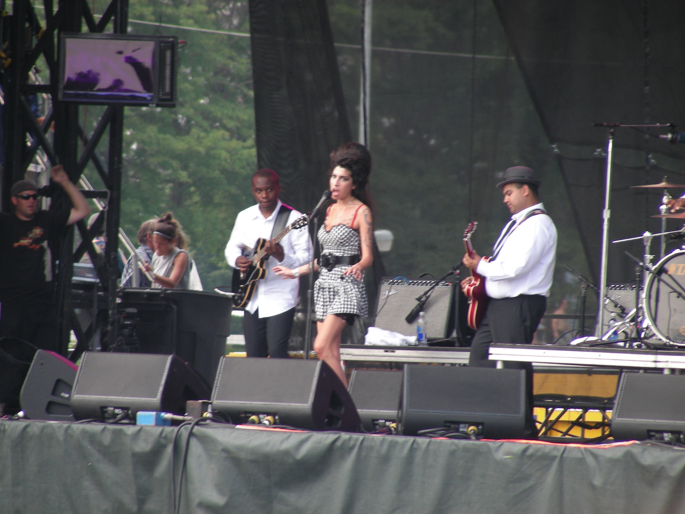 She showed up late and appearing anorexic, but dang that voice was amazing.